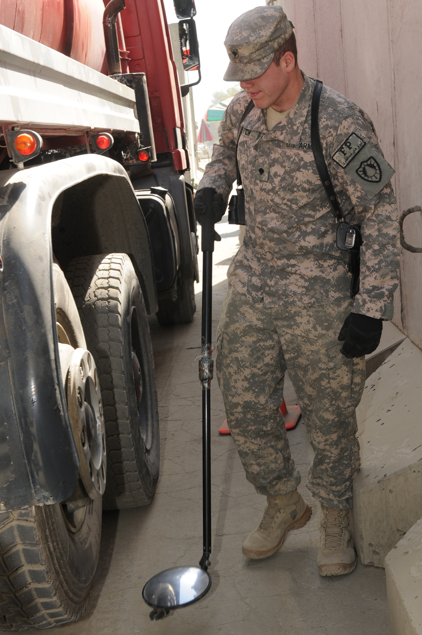 Spc. Adam Hatch, 1136th Transportation Company, Maine Army National Guard, checks the underside of a truck for bombs, drugs or any other harmful substance that might cause a threat to the camp, Oct. 7, at Camp Eggers in Kabul, Afghanistan. Hatch, a Mobile Vehicle and Cargo Inspection System operator, and other members of the 1136th provide force protection for Camp Eggers and New Kabul Compound to ensure the safety of the personnel who live and work at these camps.